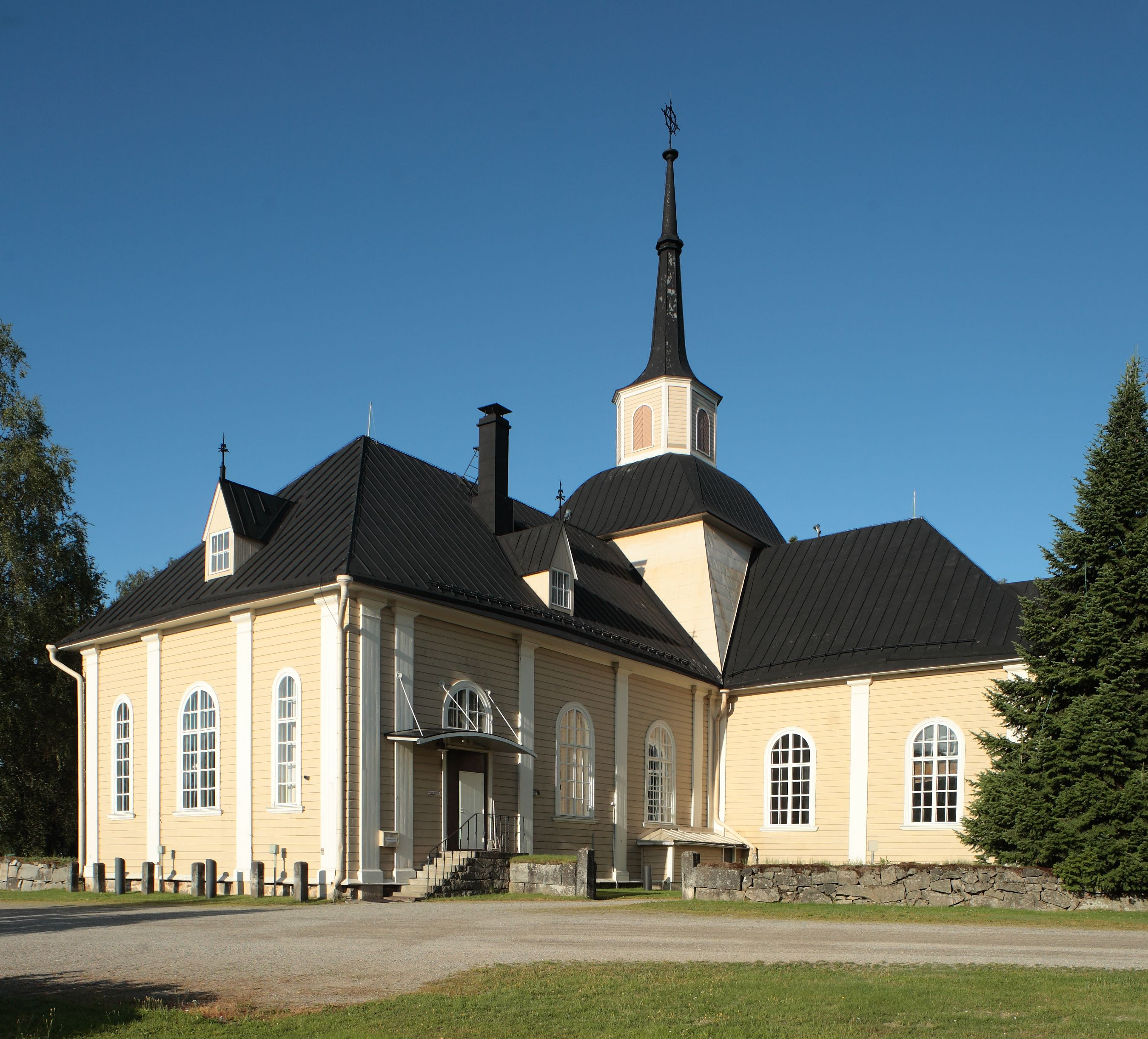 Iisalmi old church, built 1778–1780